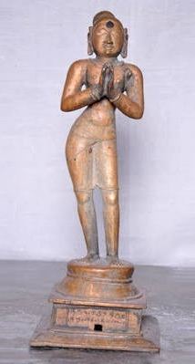 Tiru Kurippu Thonda Nayanar